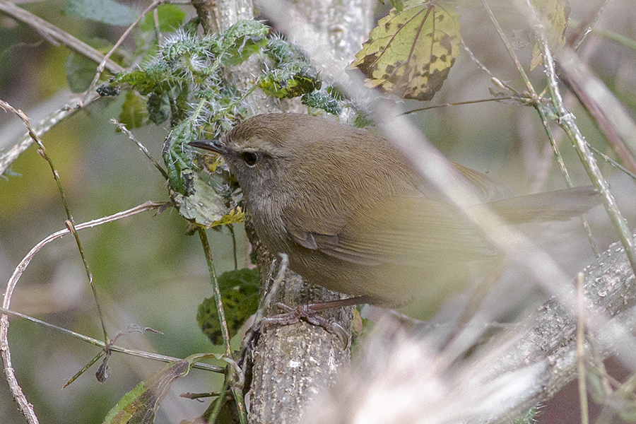 The specie Brown-flanked Bush Warbler had been photographed during the birding tour of GoingWild at Mangoli, Uttarakhand, India on 03.02.2015.